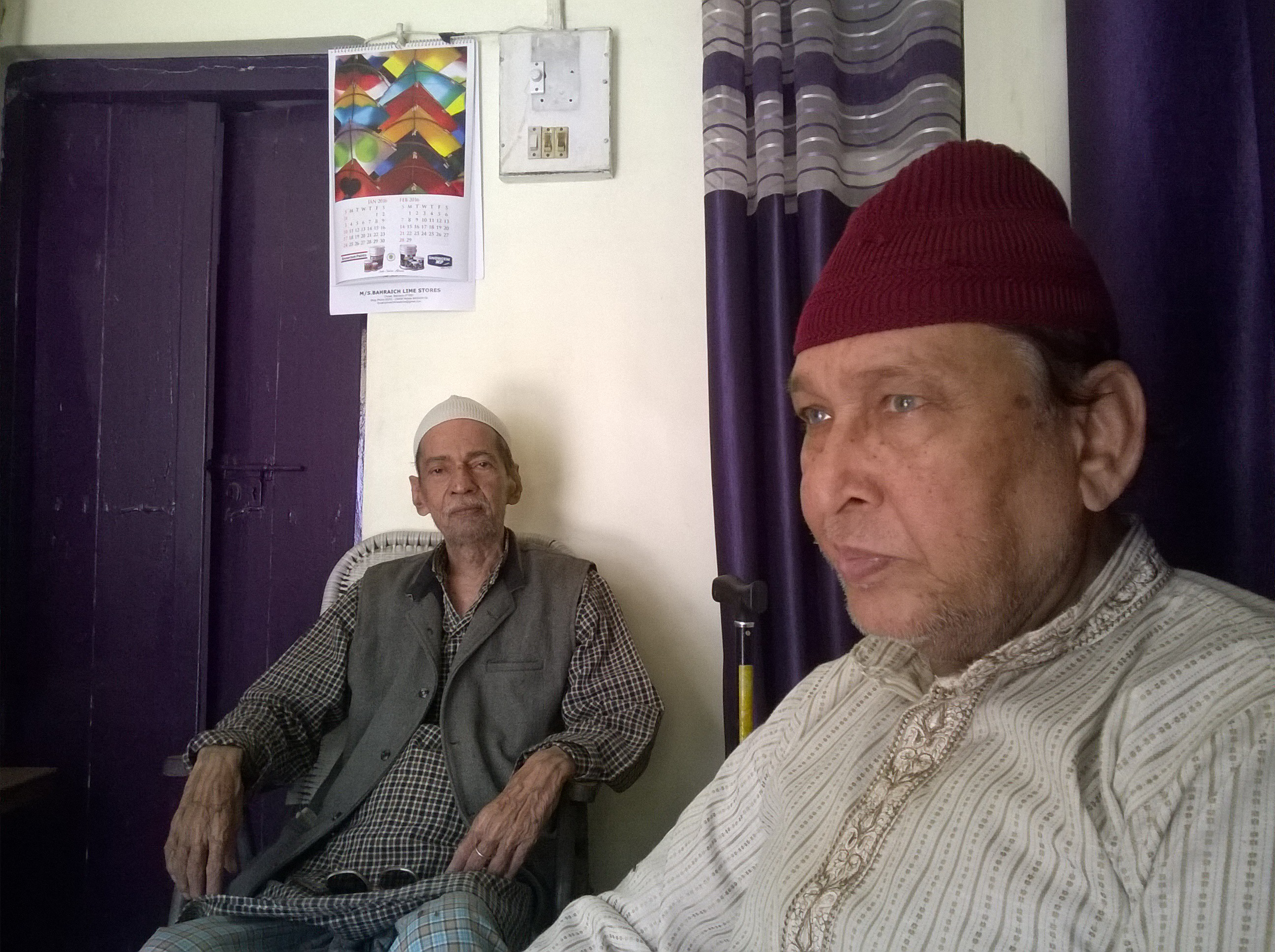 Asar Bahraichi with Izhar Warsi